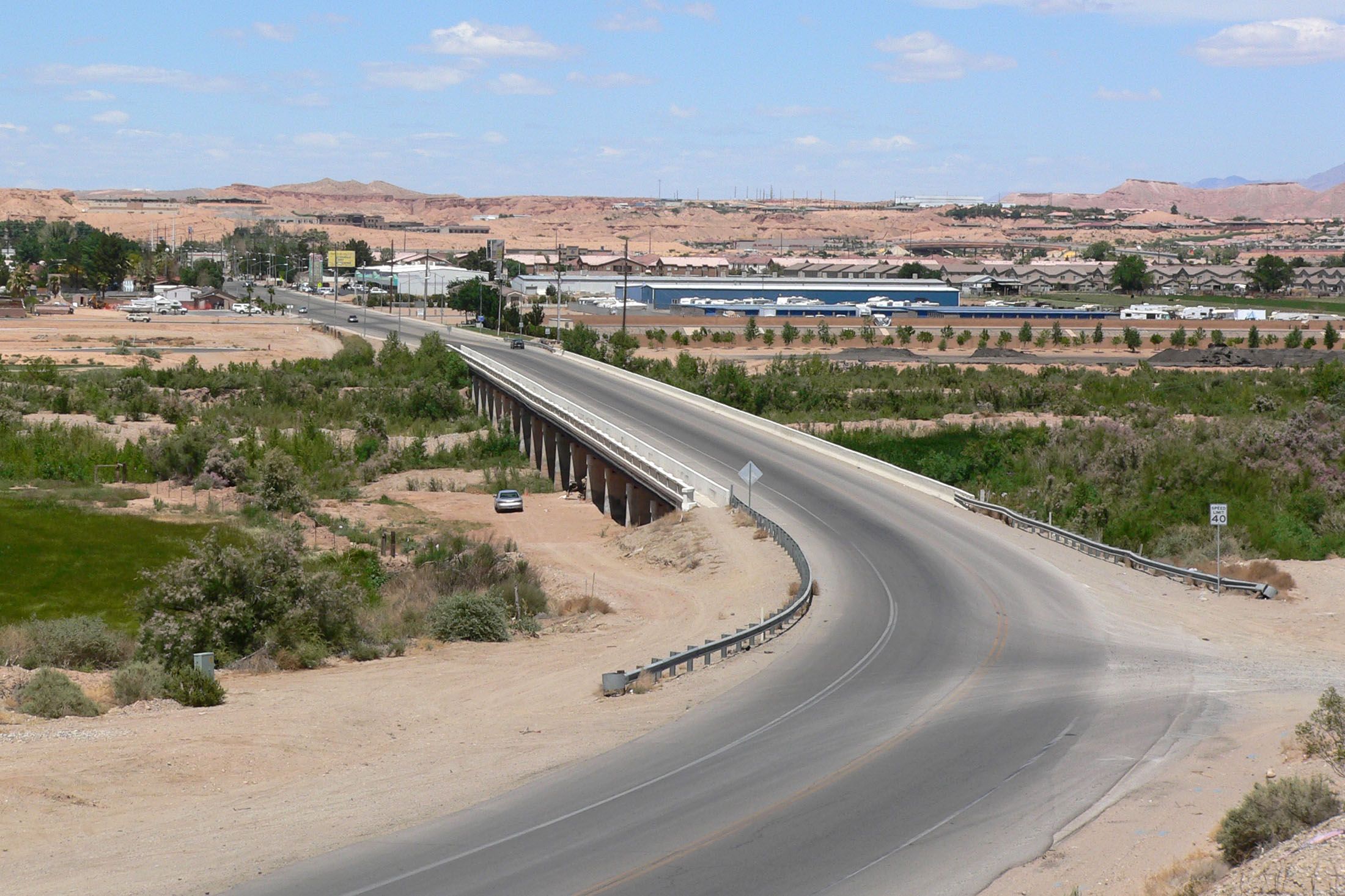 Mesquite, Nevada as seen from across the Virgin River with Nevada State Route 170 in the foreground.